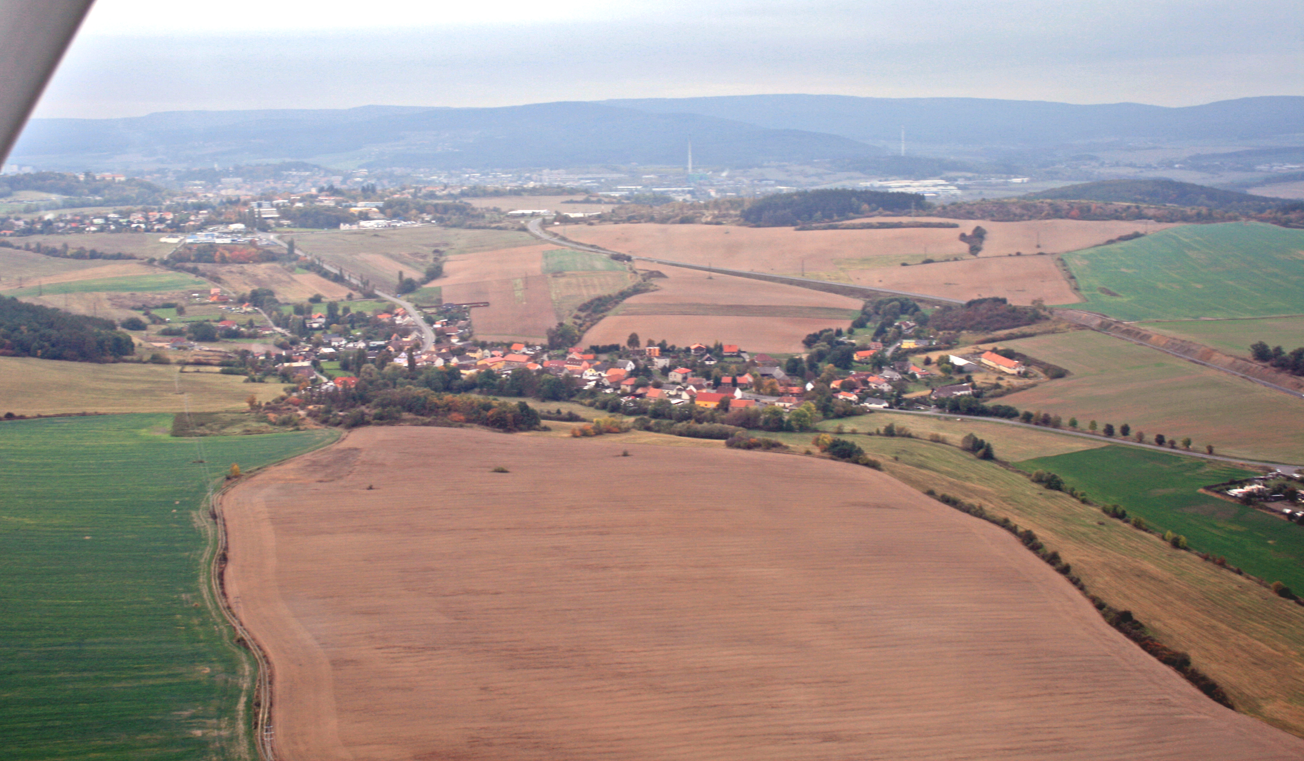 Air photo of Dubno near Příbram in central Bohemia, Czech Republic